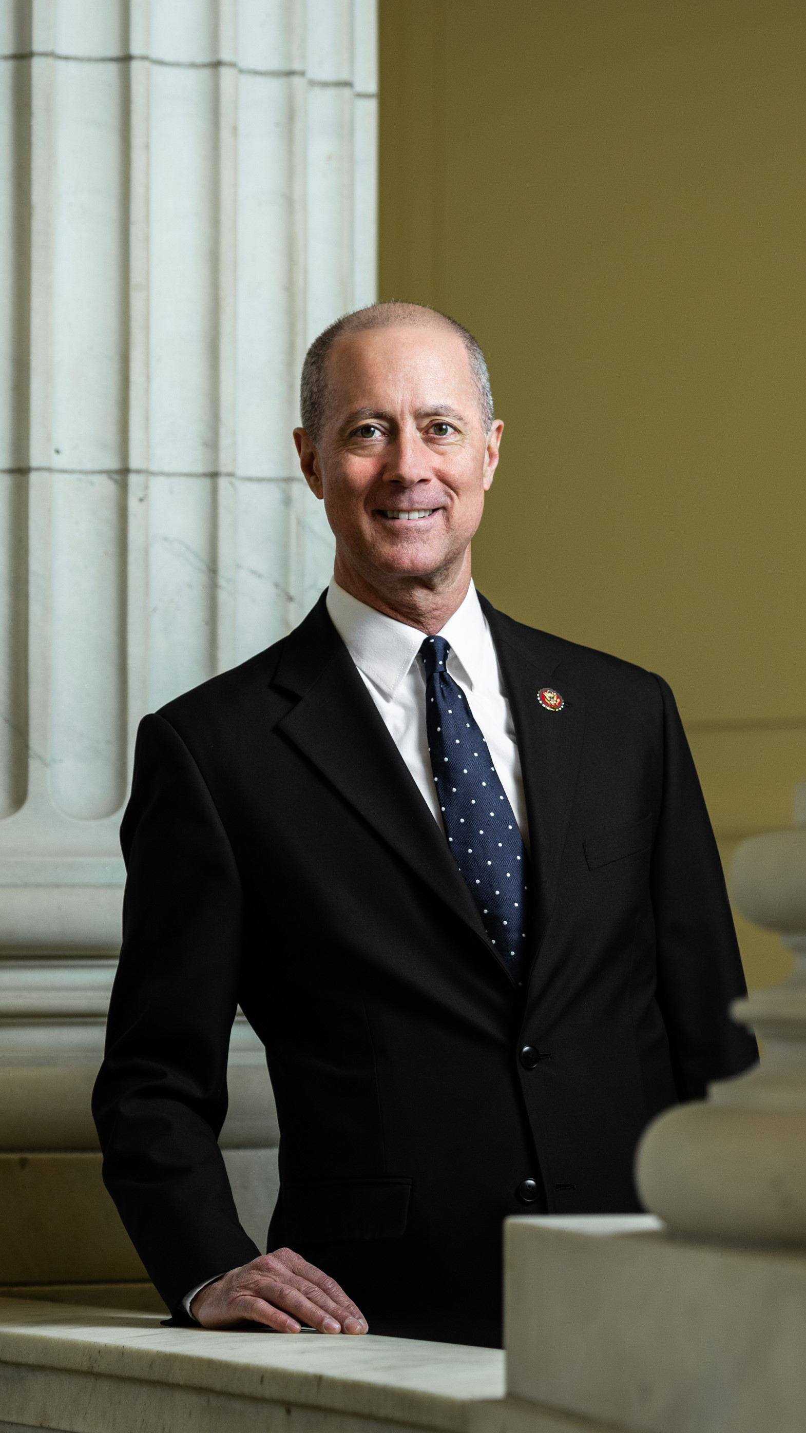 Portrait of Mac Thornberry, 2020